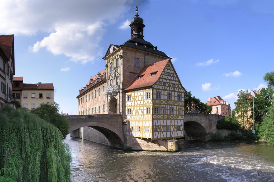 Photo(s) taken by Qole, featured on Flickr at